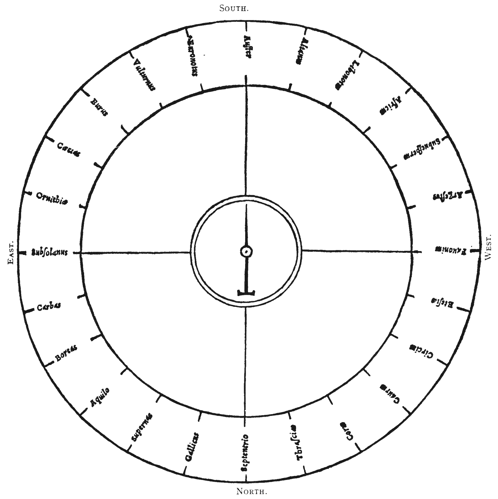 Woodcut illustration from De re metallica by Georgius Agricola. This is a 300dpi scan from the 1950 Dover edition of the 1913 Hoover translation of the 1556 reference. The Dover edition has slightly smaller size prints than the Hoover (which is a rare book). The woodcuts were recreated for the 1913 printing. Filenames (except for the title page) indicate the chapter (2, 3, 5, etc.) followed by the sequential number of the illustration.